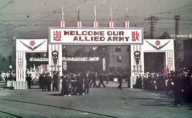 Arriving in Seoul during early October 1945 we were greeted with this sign. (Scanned at 1200 dpi from a poor quality 35mm Kodachrome.)